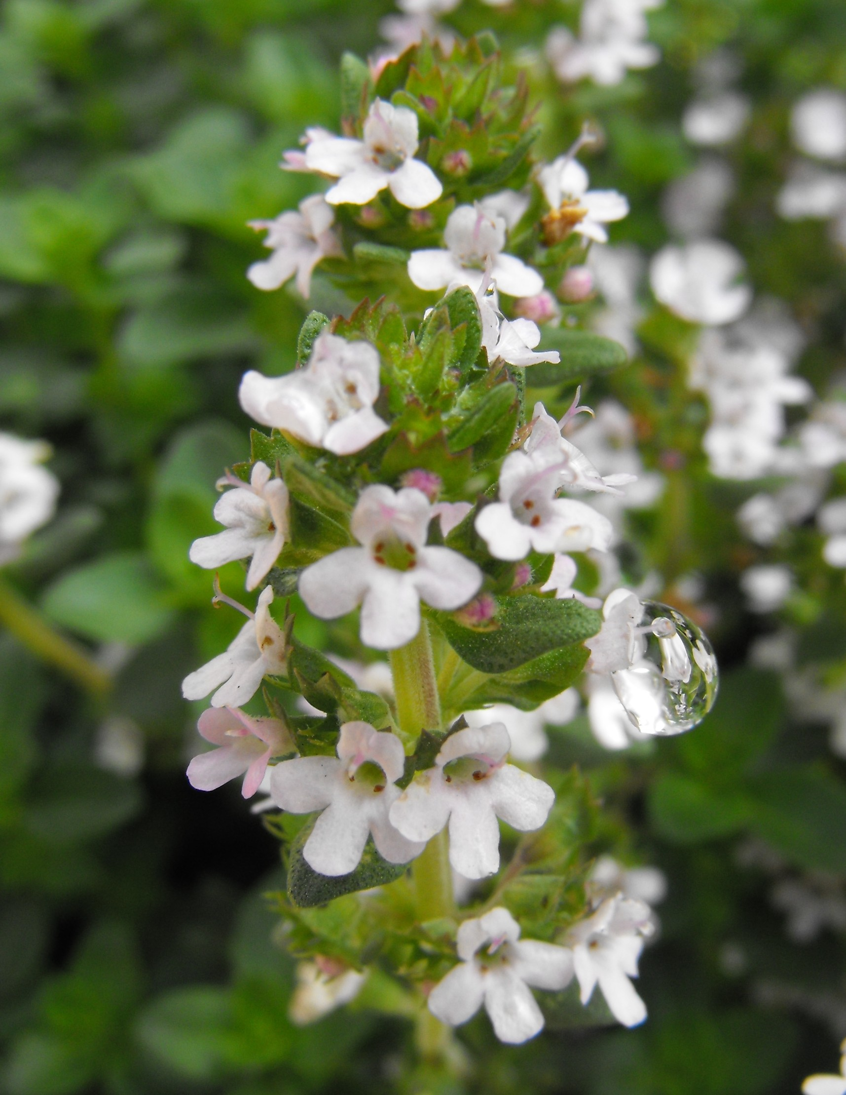 Thymus praecox in the Water Conservation Garden at Cuyamaca College in El Cajon, California, USA. Identified by sign.